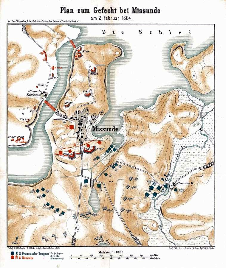 Map and order of battle of the the Action at Missunde, 2nd of February 1864.